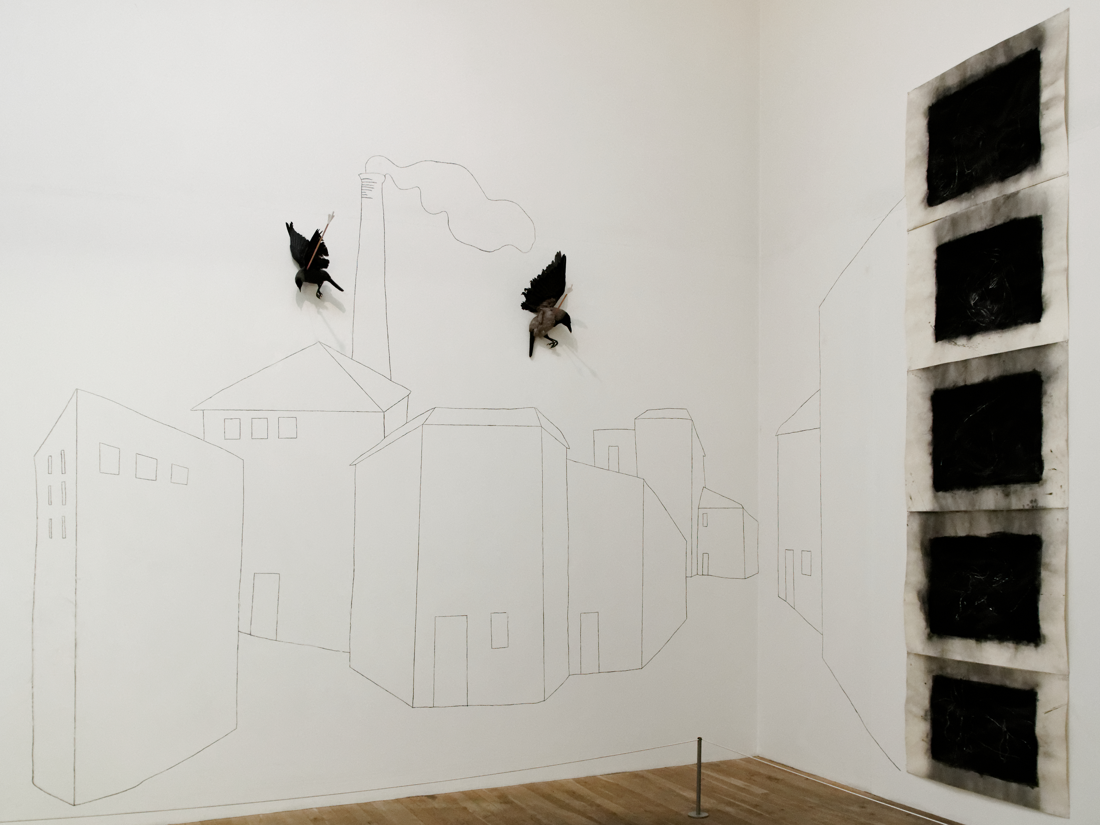 Drawing of a 19th-century city landscape with stuffed birds (a jackdaw and a hooded crow), and five individual drawings.